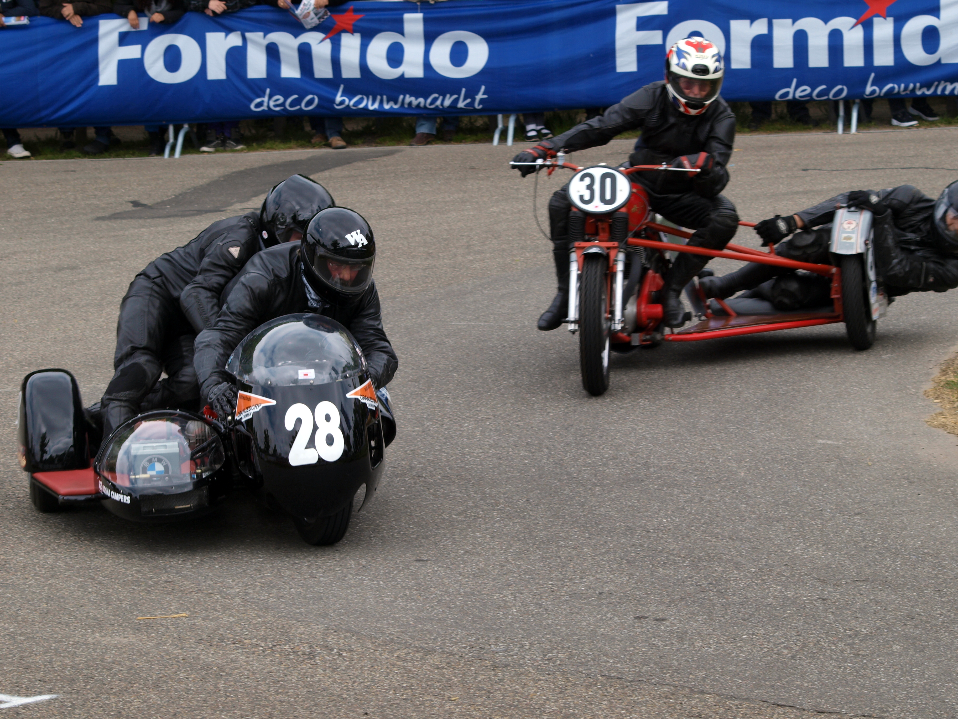 Photographed at Rockanje, The Netherlands.